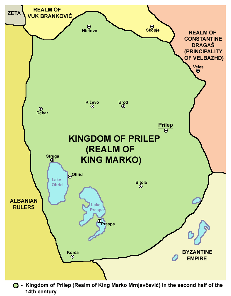 Realm of King Marko (1371-1395) was one of several successor-states that emerged upon dissolution of the Serbian Empire.